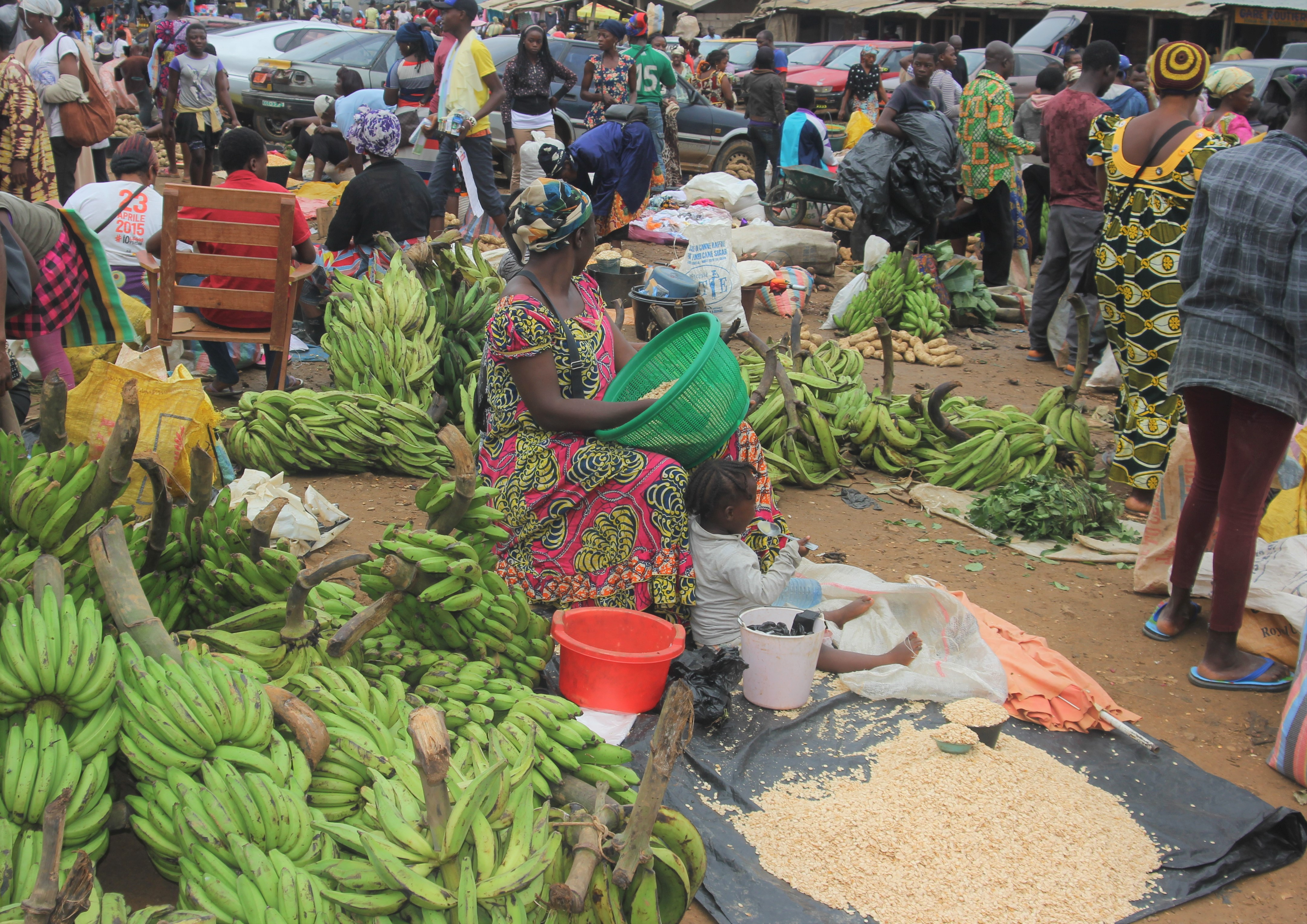 A scene of a produce market in Bafia on a Friday - Locals call "Djoumba" This is an image of "African people at work" from Cameroon